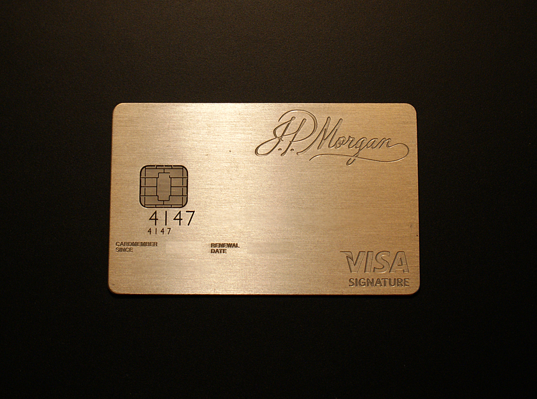 J.P. Morgan Palladium Card